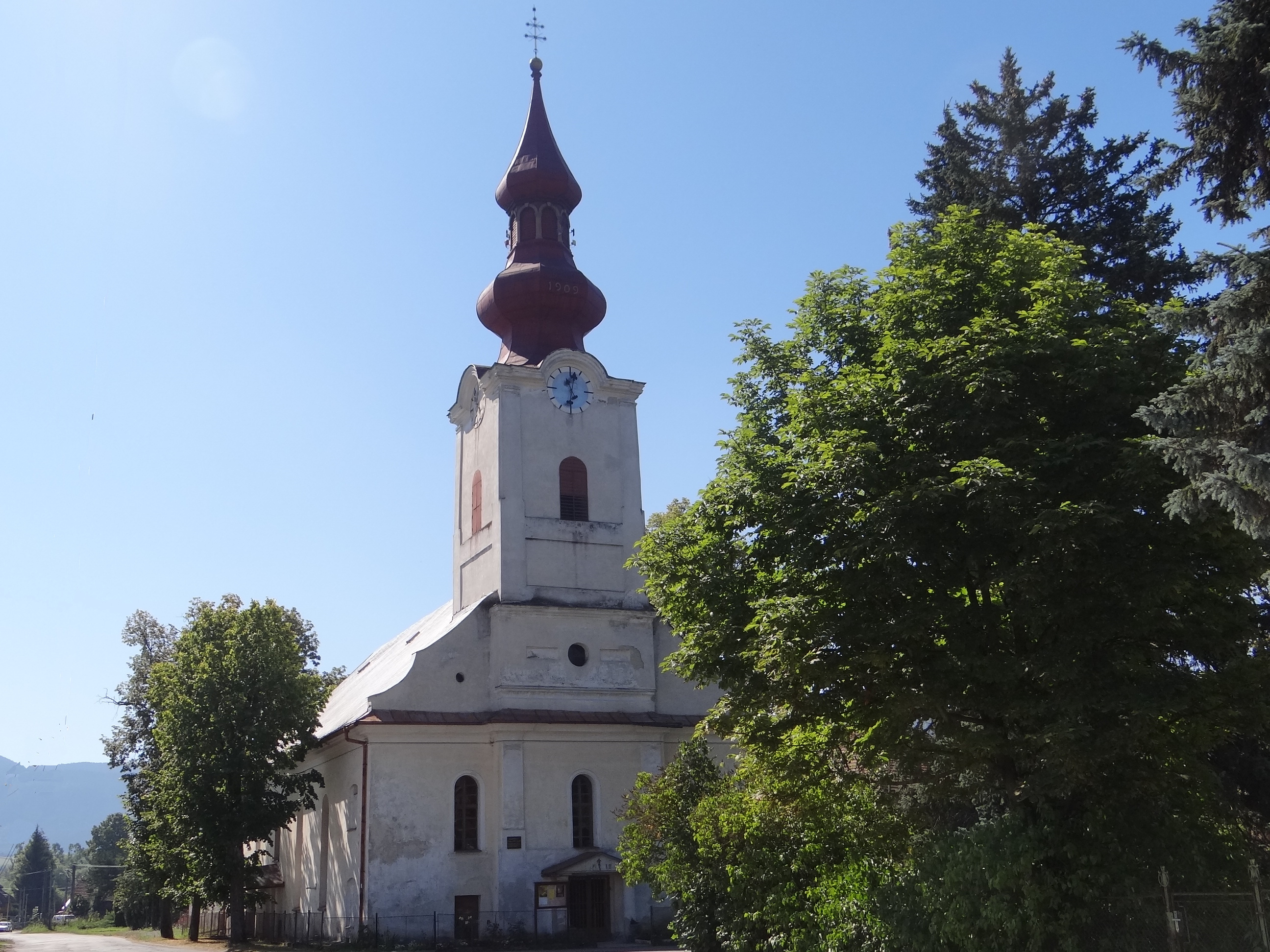 Evangelical Church, built in 1785Slovenčina: Evanjelický kostol, postavený v roku 1785